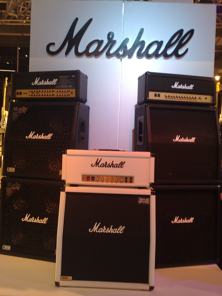 Expomusic 2010 Marshall